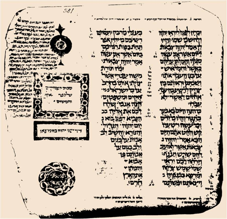 page no. 581 in the Colophon of the Codex Cairensis, the end of the prophet